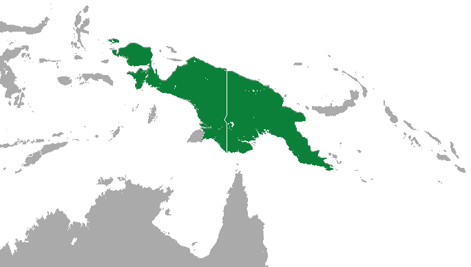 Lesser Tube-nosed Fruit Bat (Paranyctimene raptor) range